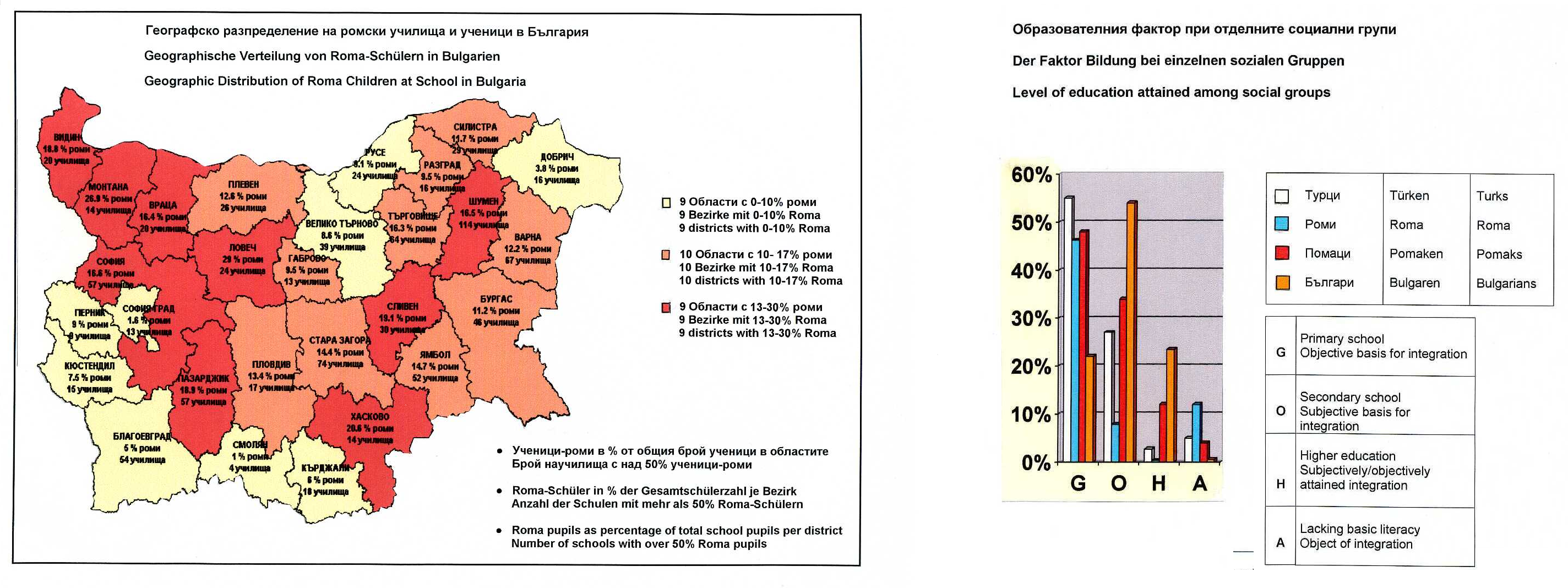 Map of Roma pupils in school in Bulgaria. Chart of completed degrees among Bulgarians, Turks, Romani and Pomaks in Bulgaria.